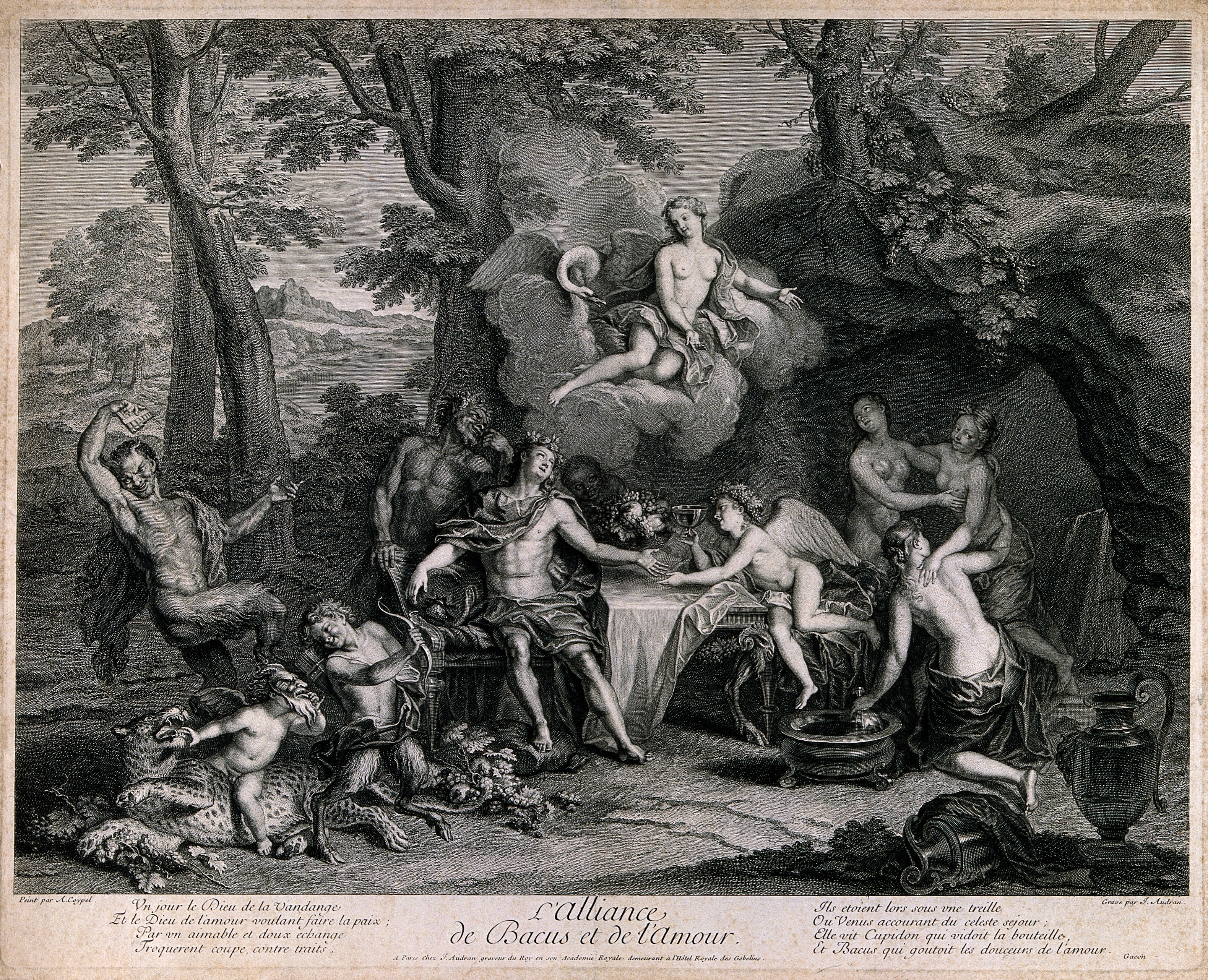 Bacchus with attendant satyrs sits drinking by a cave as Venus appears to him and offers him a cup of love. Engraving by J. Audran after A. Coypel, 1693 (?). Iconographic Collections Keywords: Bacchus; Antoine Coypel; Jean Audran